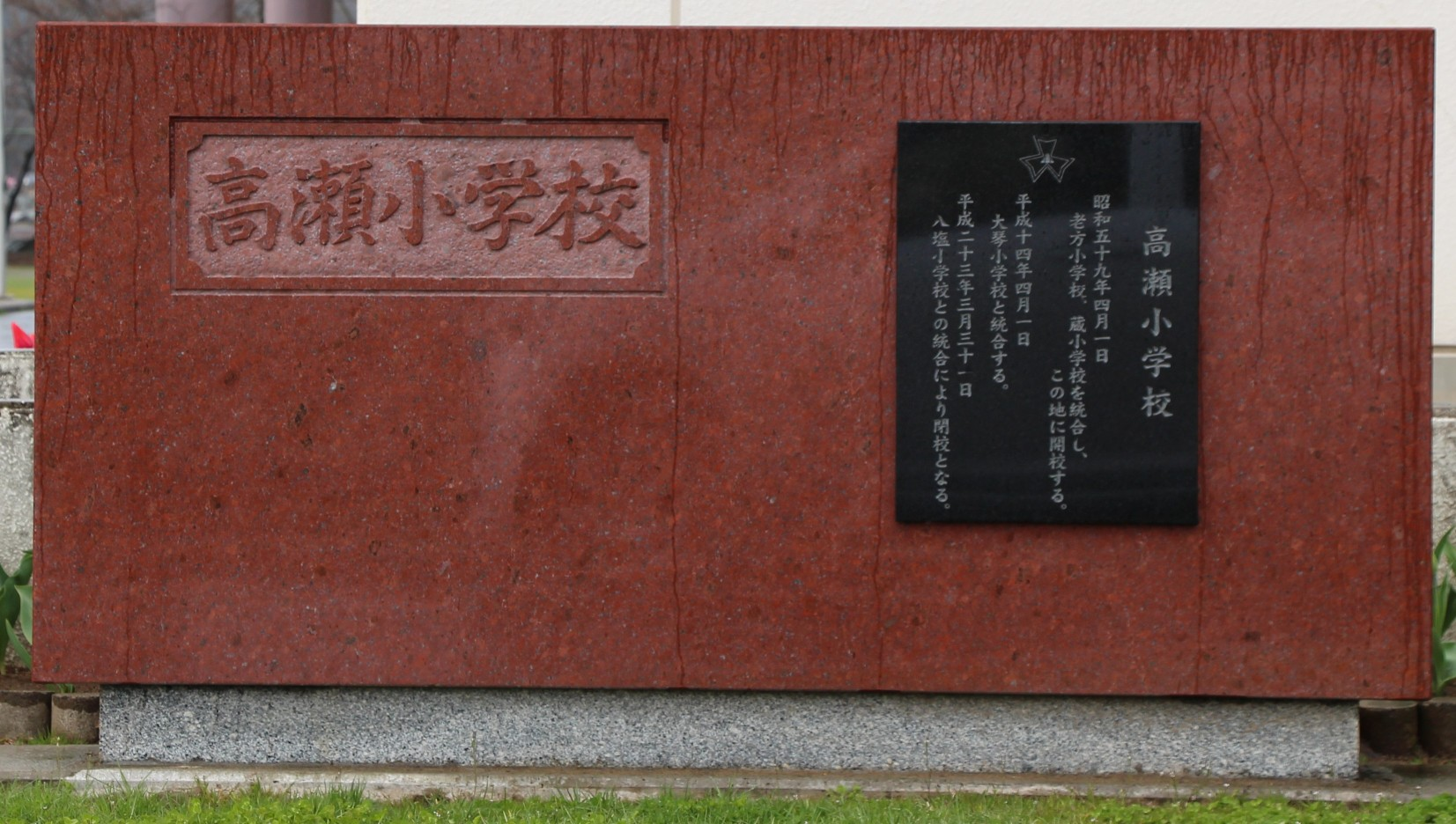 Epigraph of Takase elementary school in Higashi-Yuri Elemntary school. Taken on May 2, 2013.